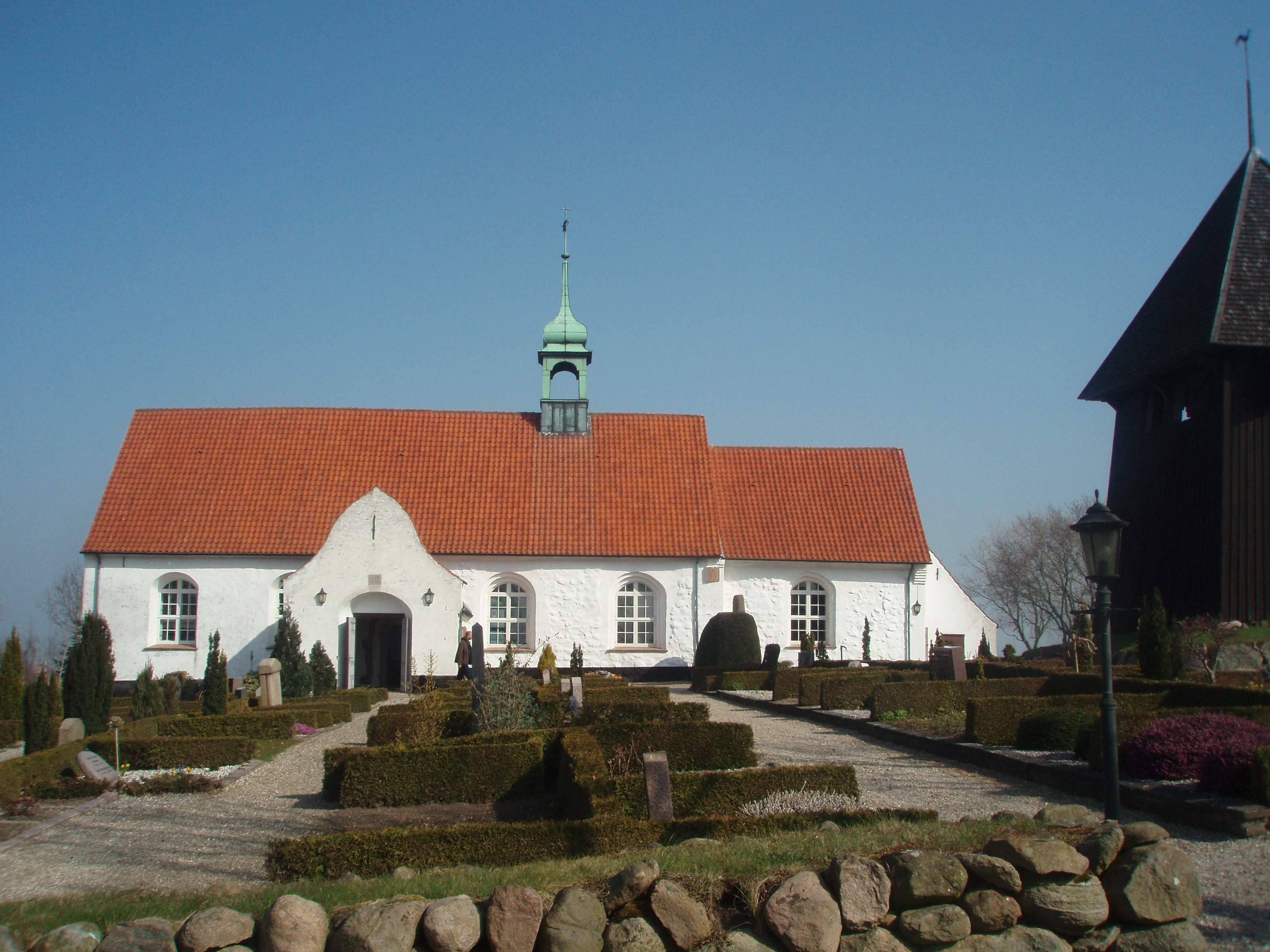 Svenstrup Church, Als, Denmark, April 2009